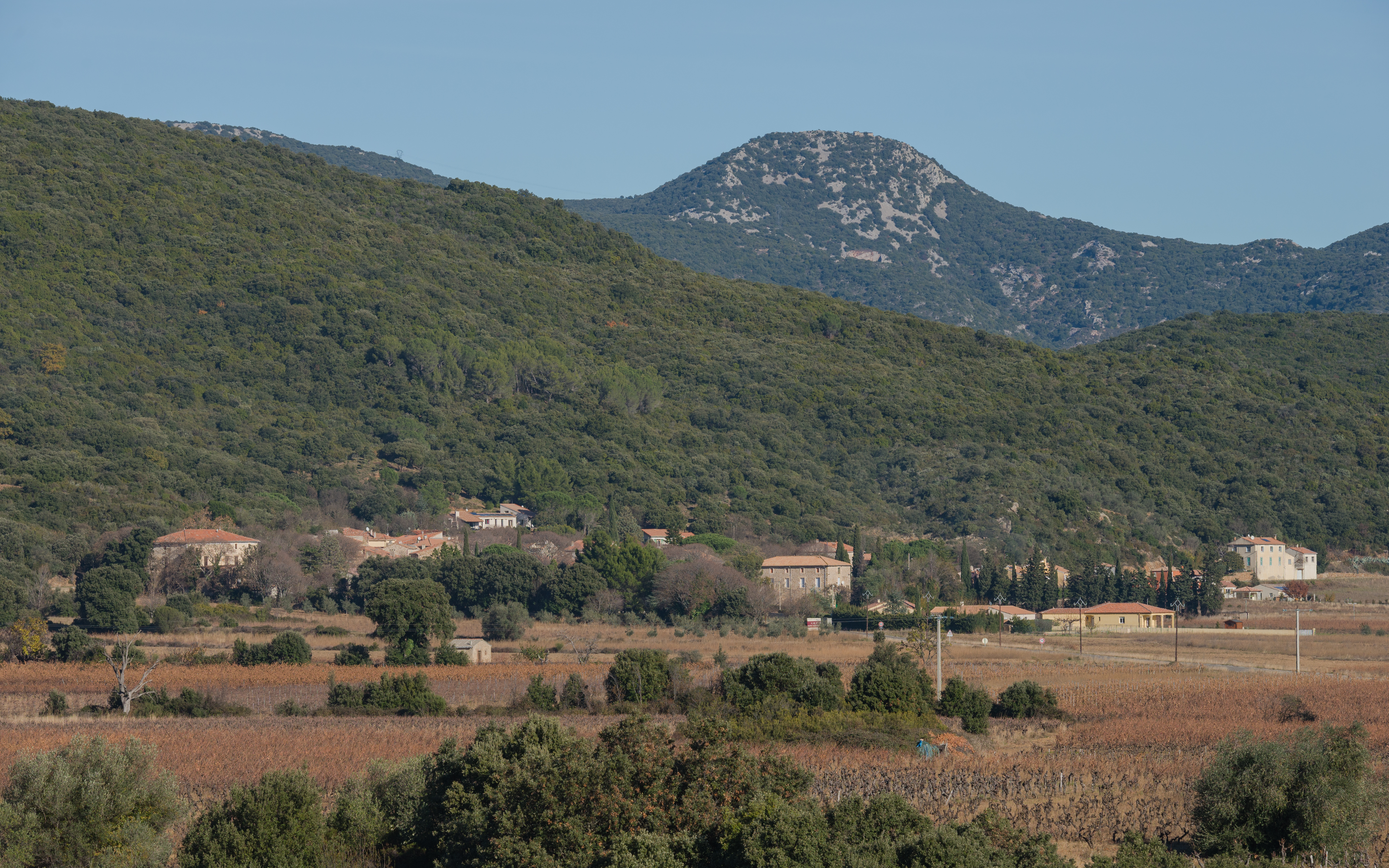 General view of the hamlet of Lugné from the Southwest. Cessenon-sur-Orb, Hérault, France.